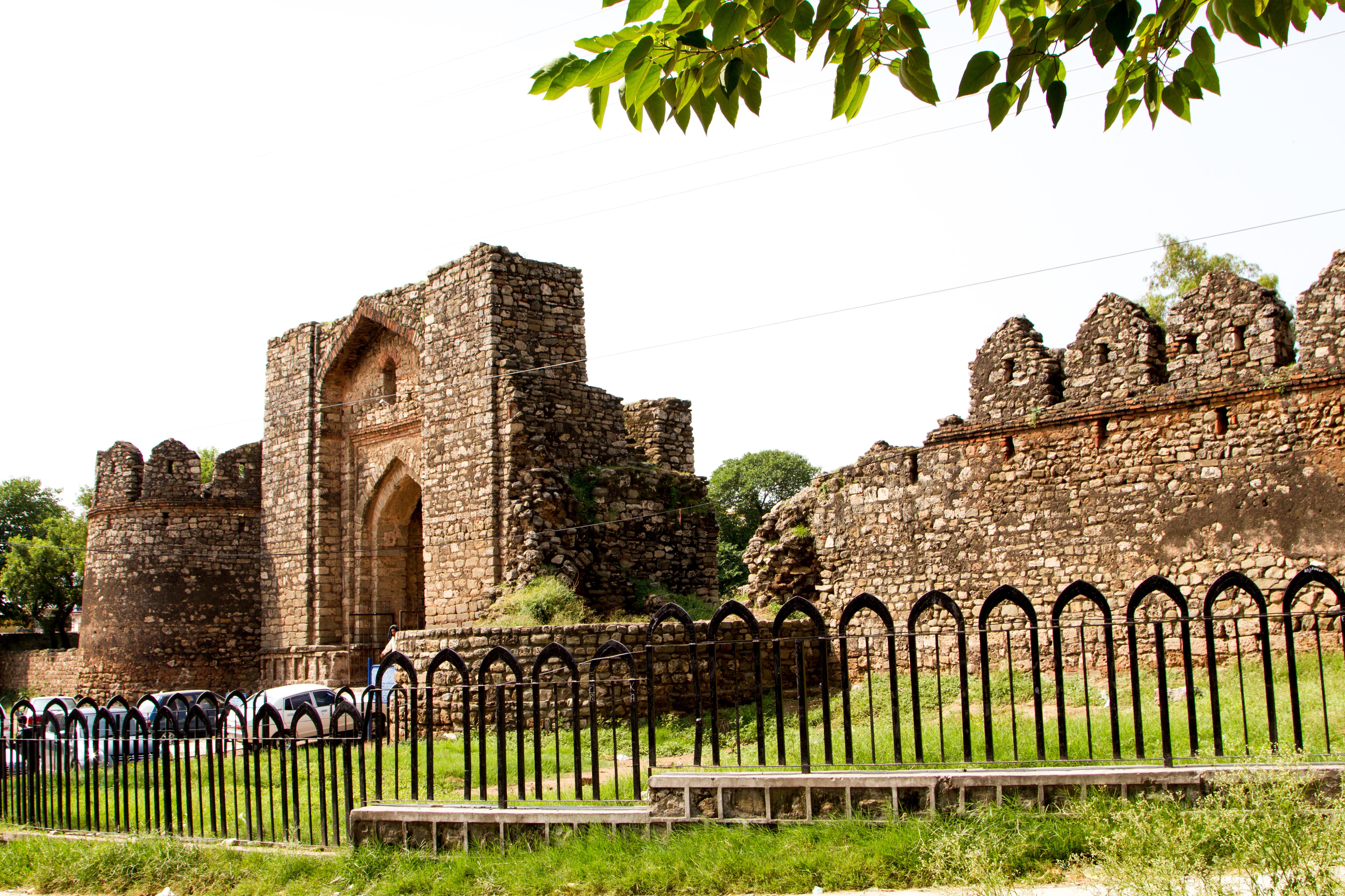 Rawat Fort: Built during the 15th century by houses multiple graves, there is a single domed mausoleum in the fort which according the locals has no grave. The fort is located just of the Grand Trunk Road in Rawat Town near the entrance of Islamabad. This is a photo of a monument in Pakistan identified as the PB-132